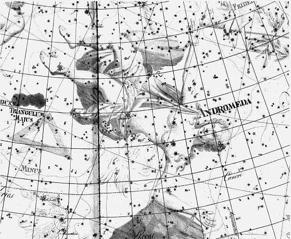 Transferred from de.wikipedia to Commons by Maksim. The original description page was here. All following user names refer to de.wikipedia. Sternbild Andromeda. Gemeinfrei.